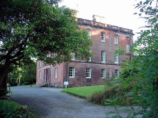 Rammerscales House An 18th century Georgian manor house near Lochmaben. It is built of sandstone and designed in Palladian style. It contains fine circular staircases, Jacobite relics, and a collection of 20th century paintings, tapestries and sculpture. There is a walled garden, woodland walks and wonderful views over Annandale. The house is open at certain times, which may be obtained by telephoning. for contact details.